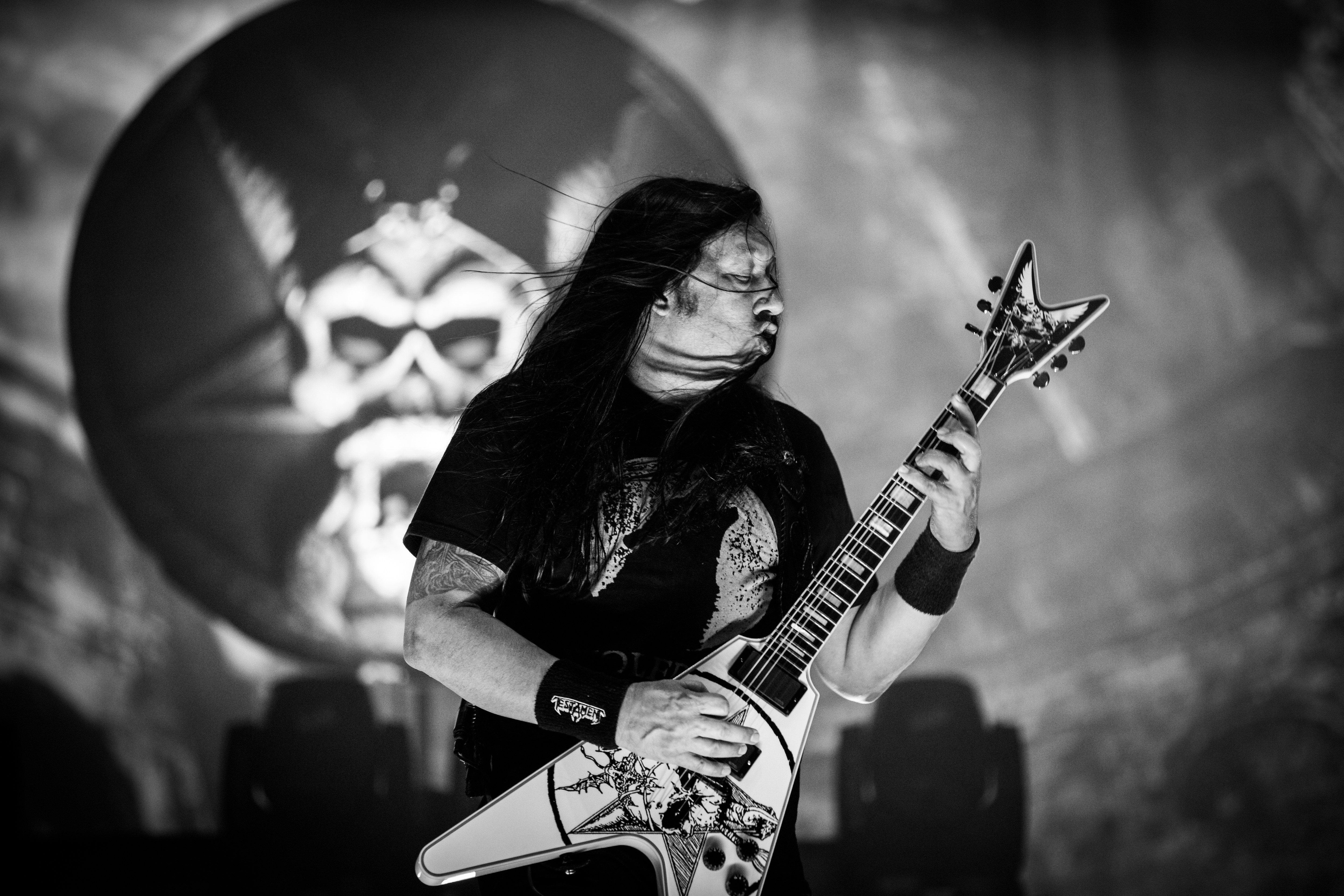 Testament - Wacken Open Air 2016